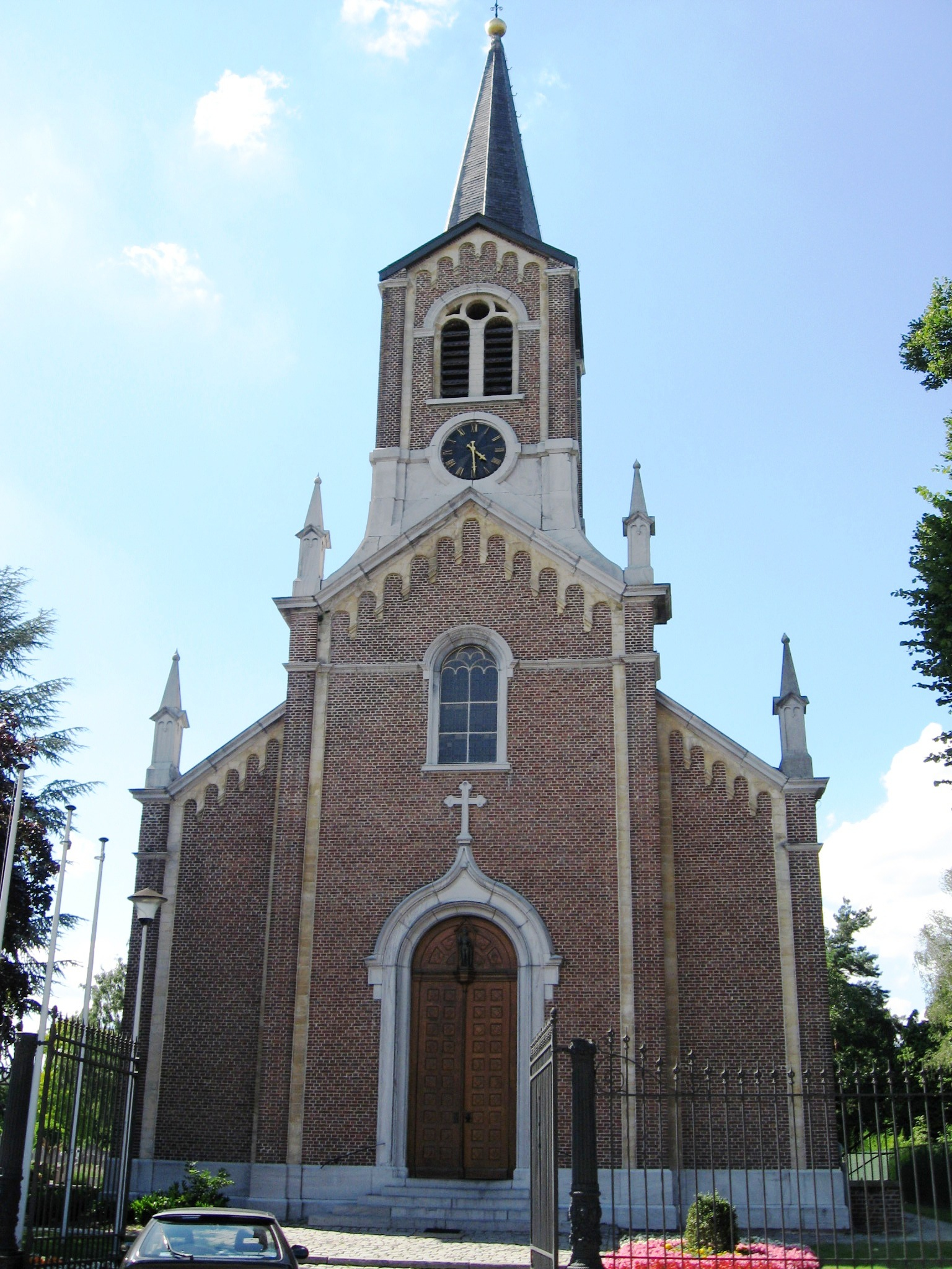 Church of the Visitation of the Blessed Virgin Mary in Hasselt (Godsheide), Limburg, Belgium